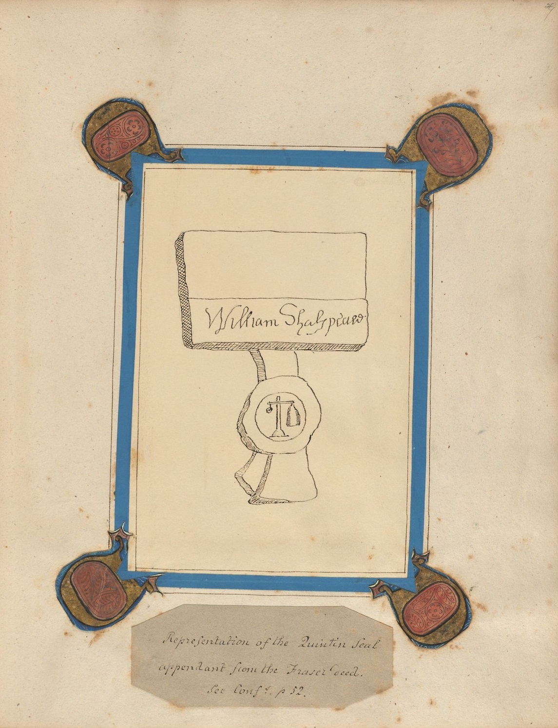 Forgery of Shakespeare’s signature, ca. 1795, by William Henry Ireland (1775/1777-1835). "Representation of the Quintin Seal appendant from the Fraser deed." W. H. Ireland Papers, 1593-1824, MS Hyde 60, (4). Houghton Library, Harvard University